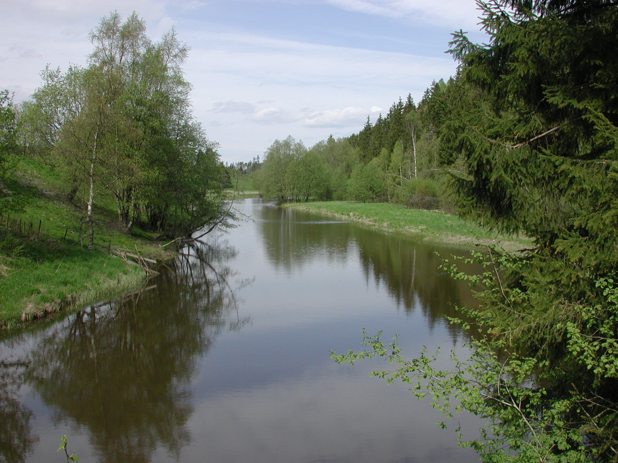 The River Hobøl (one of the catchments monitored in the Norwegian JOVA programme).